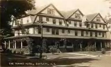 Howard Hotel in c. 1920, Bartlett, NH; from an old postcard.